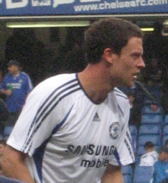 Wayne Bridge